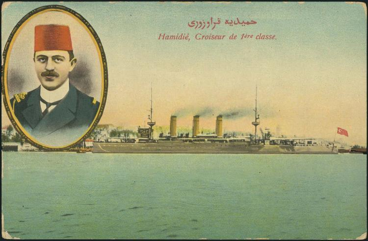 Postcard of Hamidié, First Class Cruiser